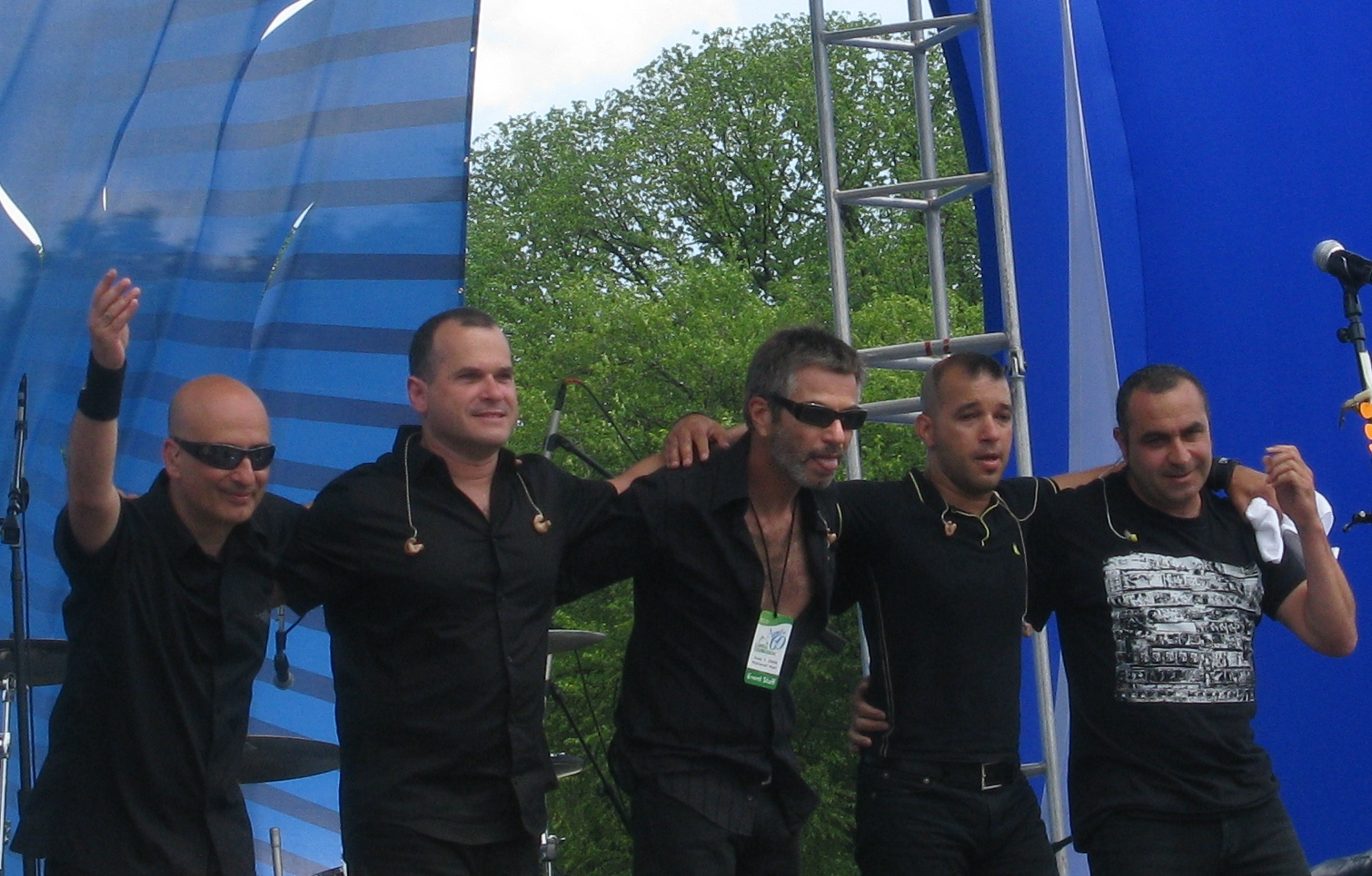 Mashina at the "Israel@60" celebration in Washington D.C.